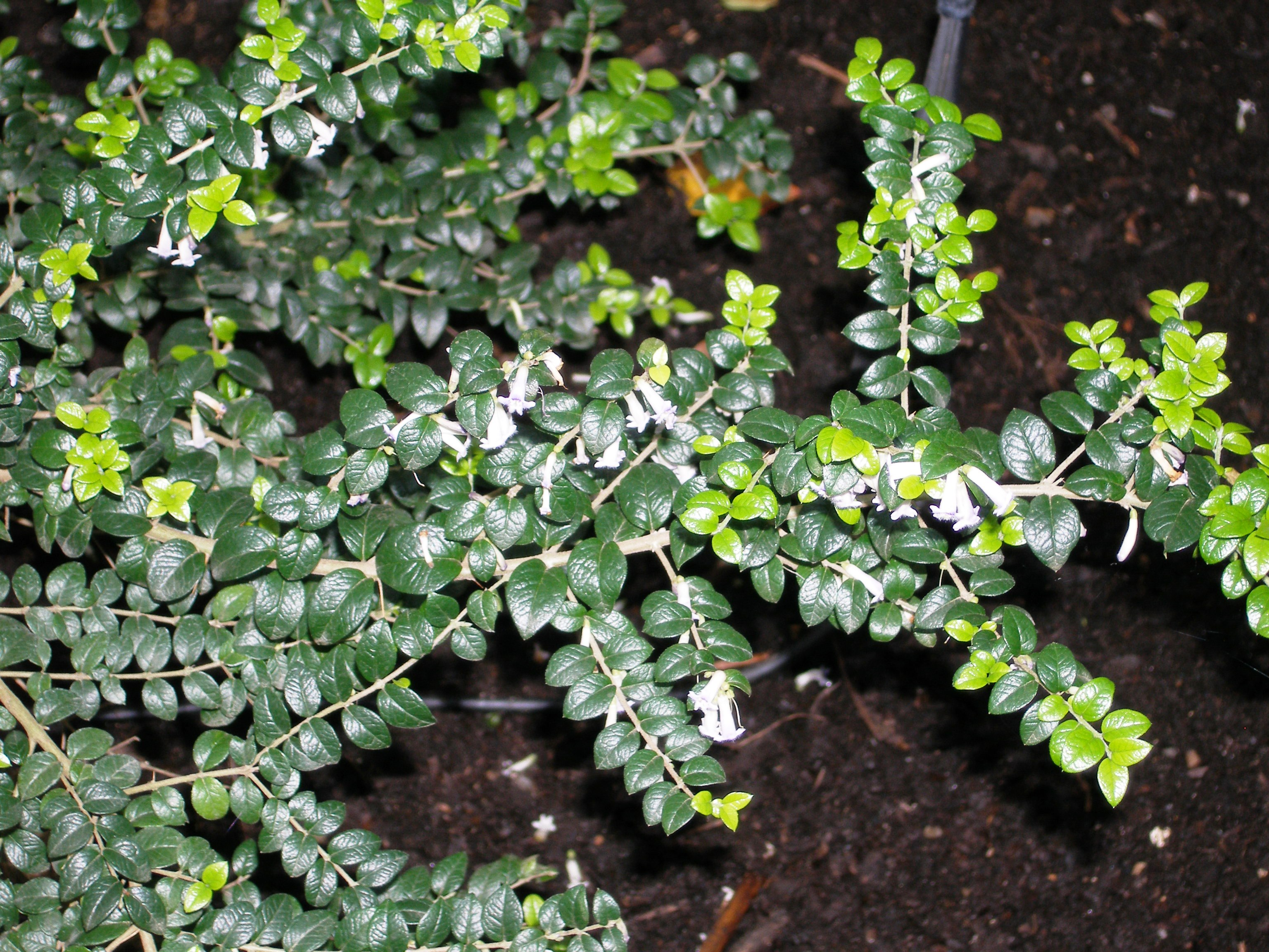 Specimen in cultivation at the Royal Botanic Gardens, Kew, United Kingdom.